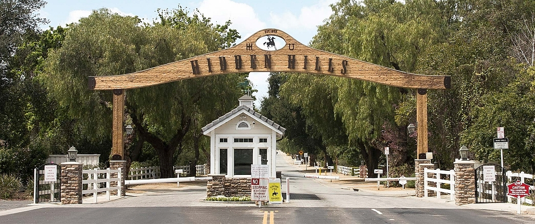 Long Valley Road gate into Hidden Hills, California.